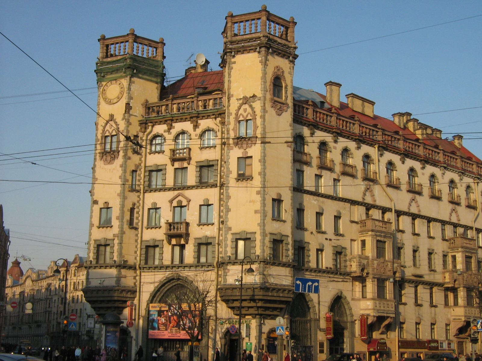 "House with Towers" in Petrogradskaya district of Saint-Petersburg, Russia. Architects: A.E.Belogrud and K.I.Rosenstein, 1915